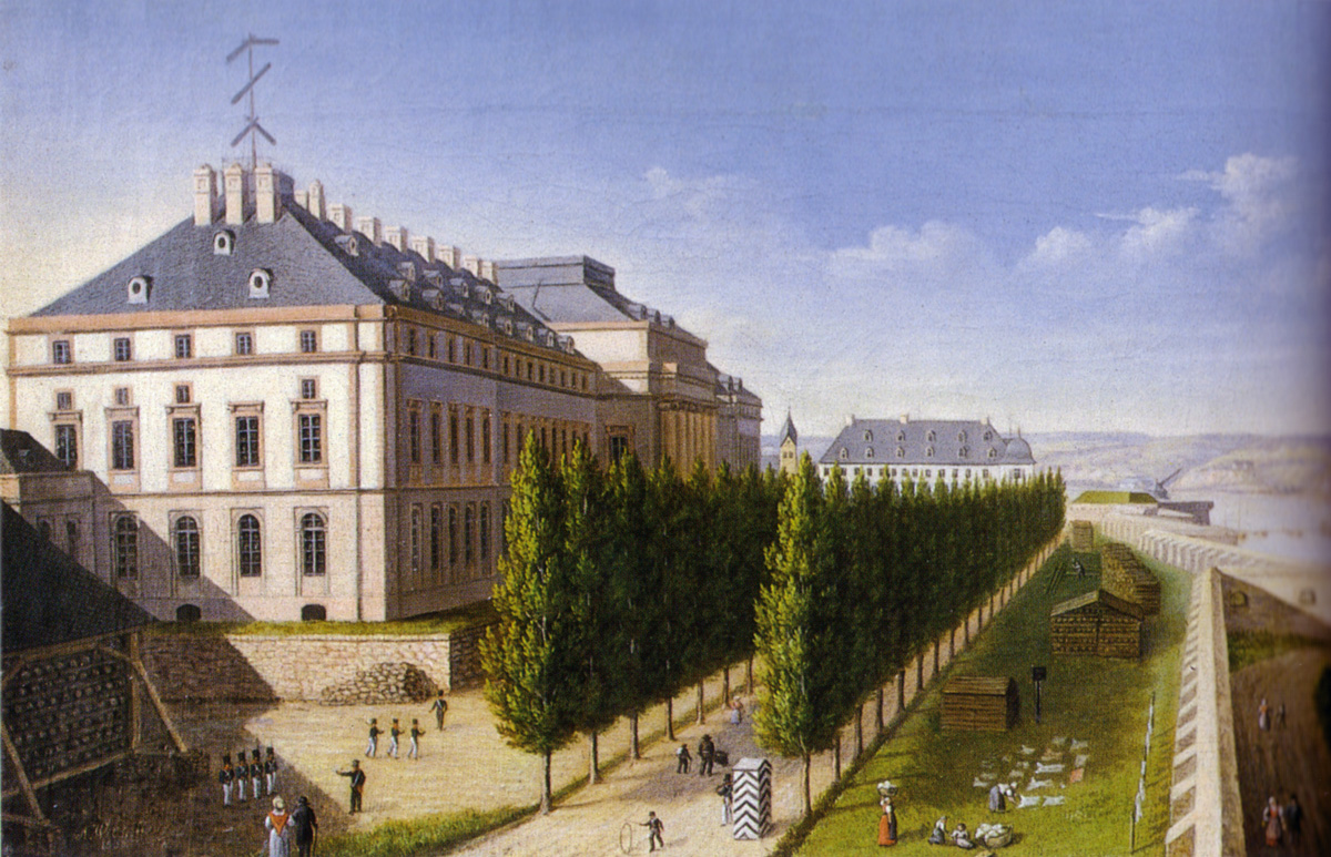 Last station no 61 of the prussian optical telegraph in Koblenz, oil on canvas